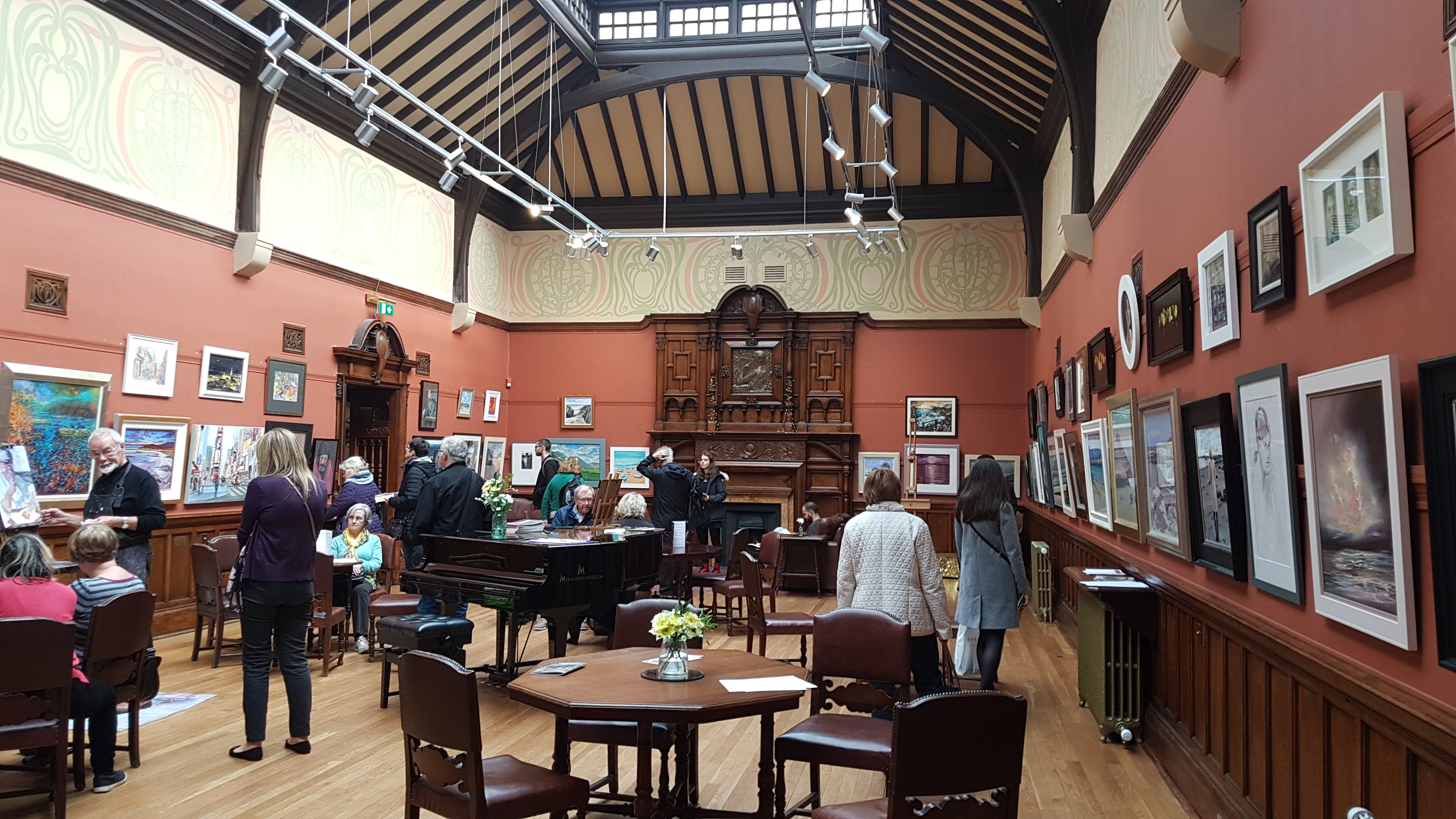 The Glasgow Art Club, 185 Bath Street, Glasgow. Founded in 1867 by William Dennistoun. Professional artists started joining in 1870s and exhibitions were held. It moved to 185 Bath Street premises in 1893. Wikidata has entry Q17568115 with data related to this item.